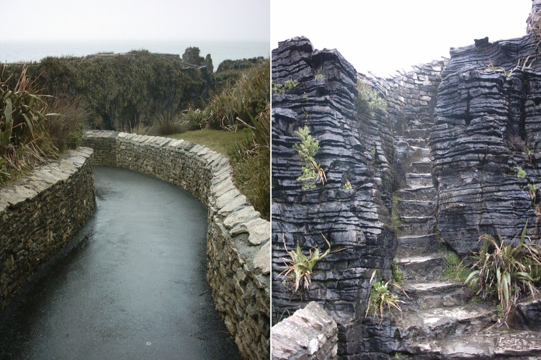 Collage of some of the walkways through the pancake rocks area in the West Coast of New Zealand.